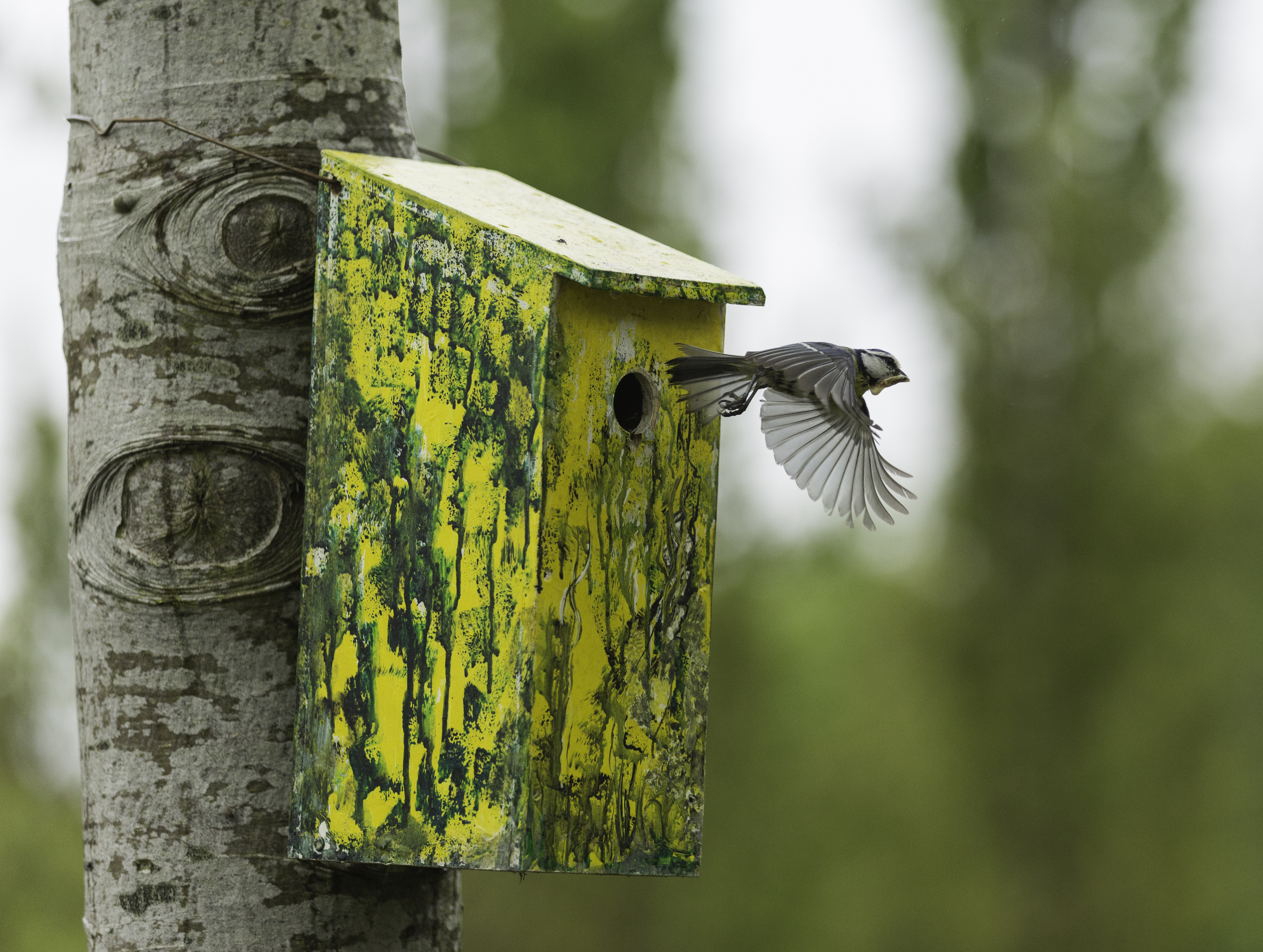 Eurasian blue tit leaves the nest box